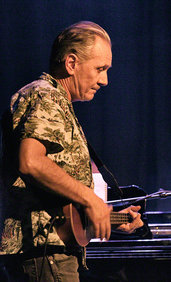 Baard Slagsvold performs with Lars Bjerkmann at Cosmopolite in Oslo on 5.3.16. Lineup:Jørgen Gaardvik (drums)Magnus Larsen jr (bass)Baard Slagsvold (piano / ukulele)Arne Sæther (hammond organ)Bitten Forsudd (tuba / choir)Mona Mauseth Evensen (choir)Ingrid Pedersen (choir)Andreas Løvold (trumpet)Mathias Hole (trombone)Michael Strütt (tenor saxophone)